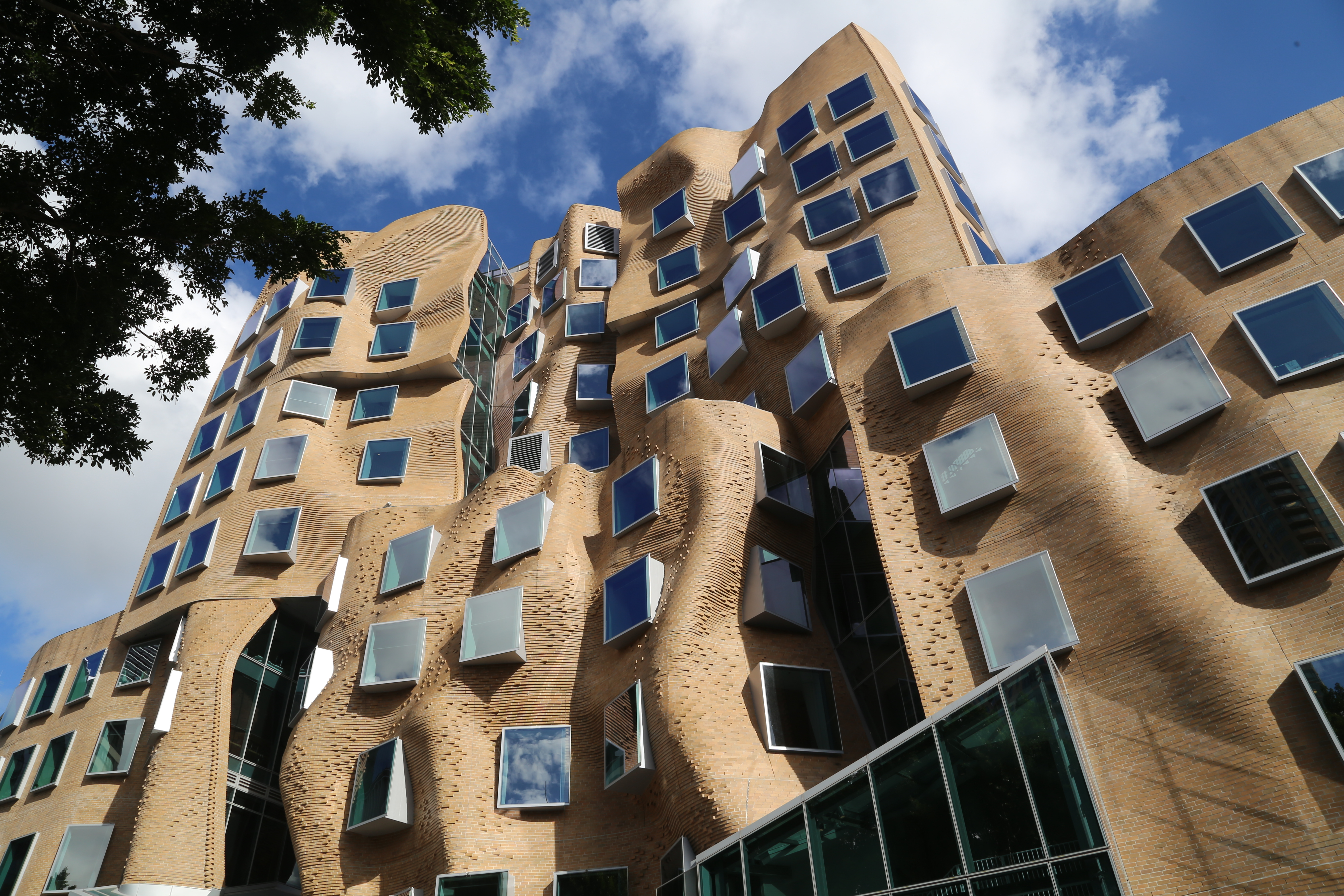 Dr Chau Chak Wing Building in Sydney by Frank Gehry